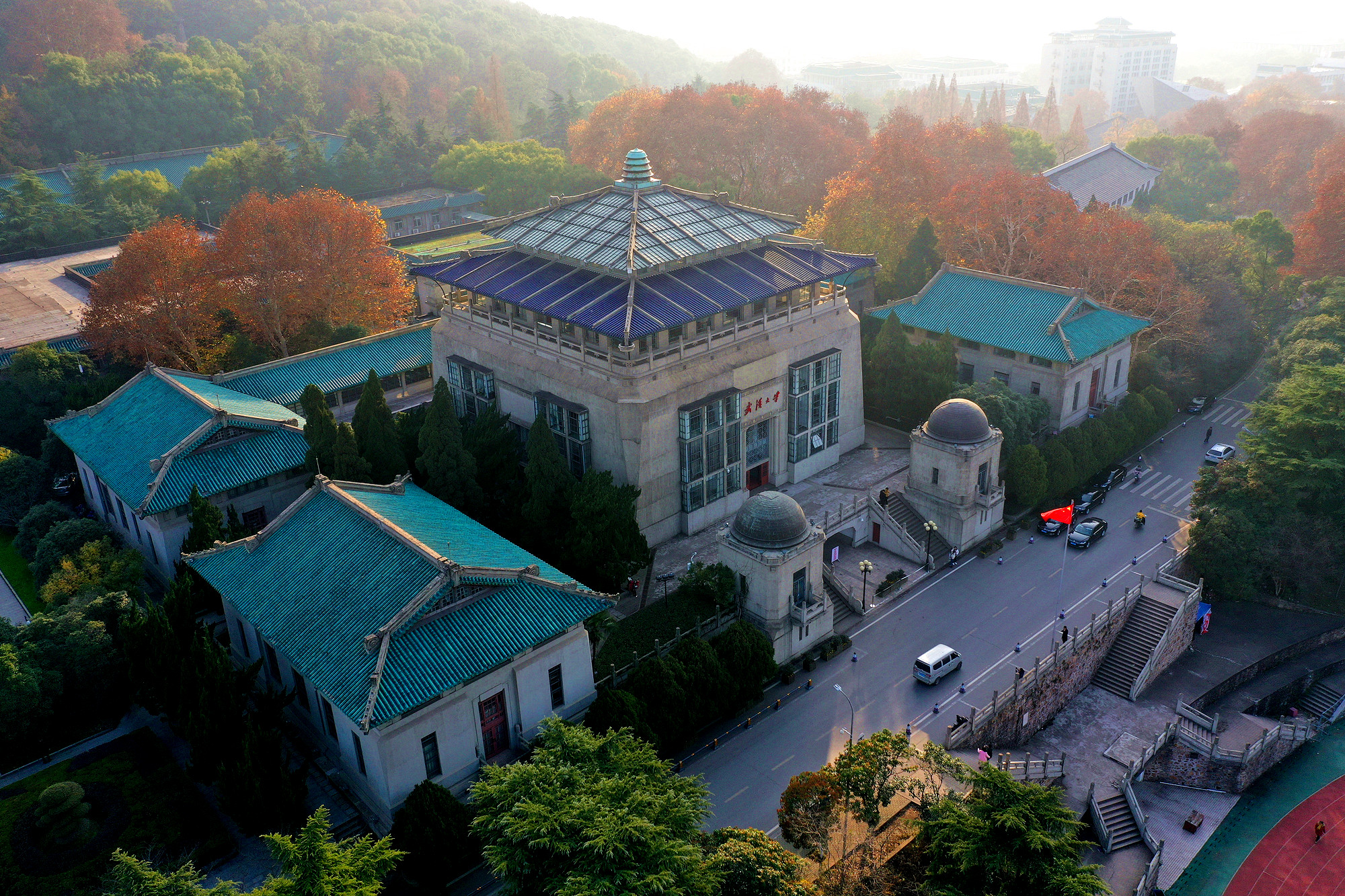 Wuhan University Administration Building